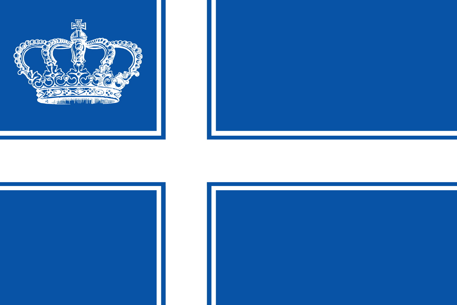 This is the current flag of the micronation of Westarctica, located in Marie Byrd Land on the Antarctic continent. Westarctica has had many flags since its founding in 2001, but this is currently the official flag approved by the government.